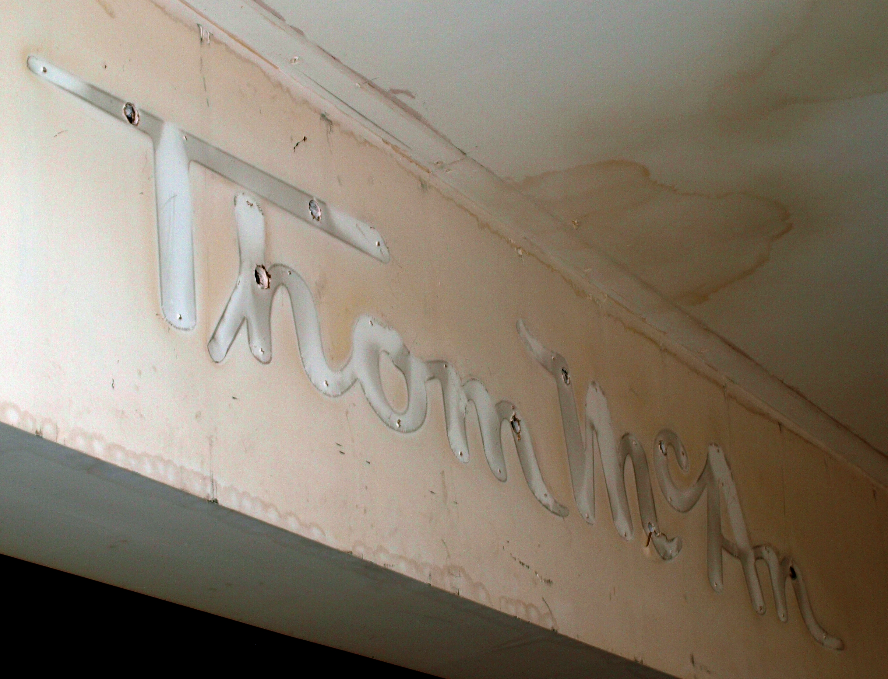 Label scar of a former Thom McAn shoe retail store at the now-closed Hawthorne Plaza in Hawthorne, California. This store closed around 1992 along with many others when the company began downsizing in the early 1990's. Remnants from this Thom McAn still retail store remain partially entact as of June 2009.